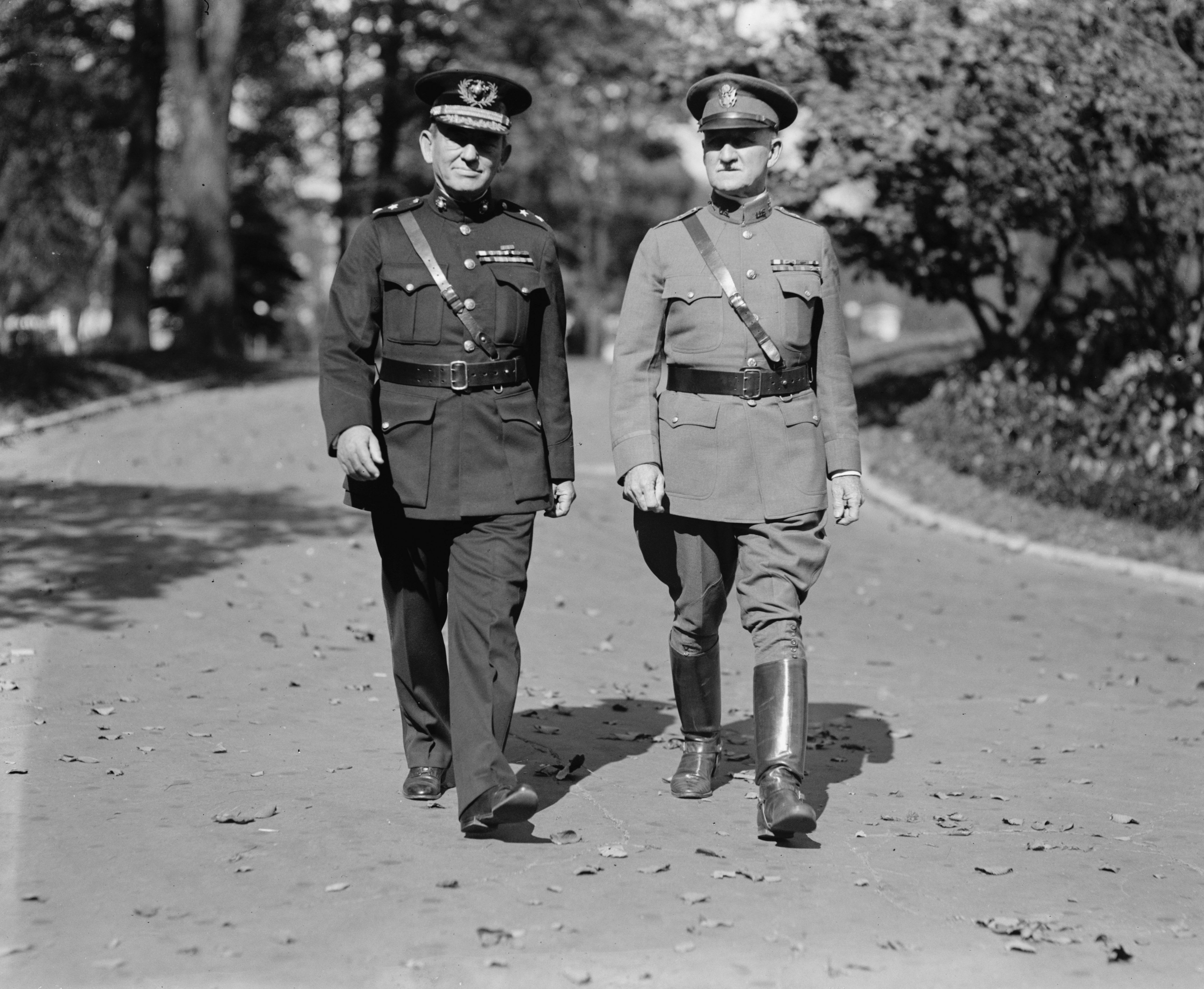 MG John A. Lejeune, left, and MG Charles S. Farnsworth at the White House, 10/20/1924.